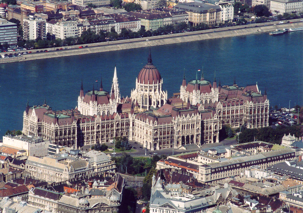 Aerial view of the Hungarian Parliament in Budapest